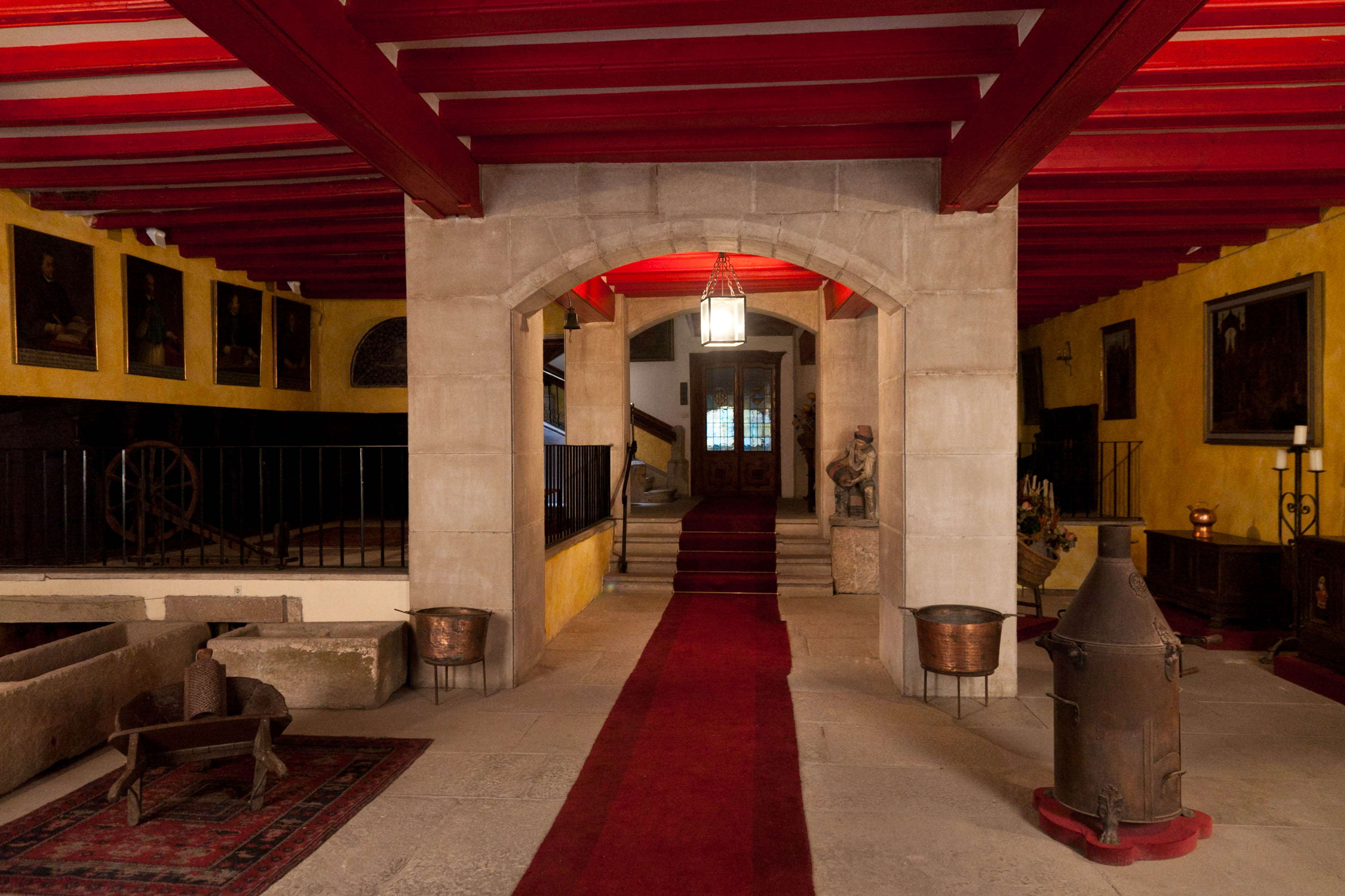 Accés principal